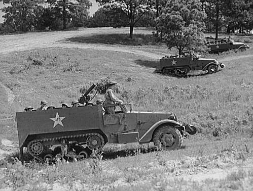 M3 Halftrack armored cars Fort Knox. Three halftrac armored cars move in formation as soldiers in training at Fort Knox, Kentucky practice some new methods in the art of mechanized warfare. Capable of rapid travel over difficult terrain, these versatile cars have many important uses in an army on the move.